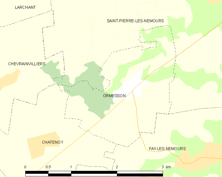 Map of French municipality Ormesson